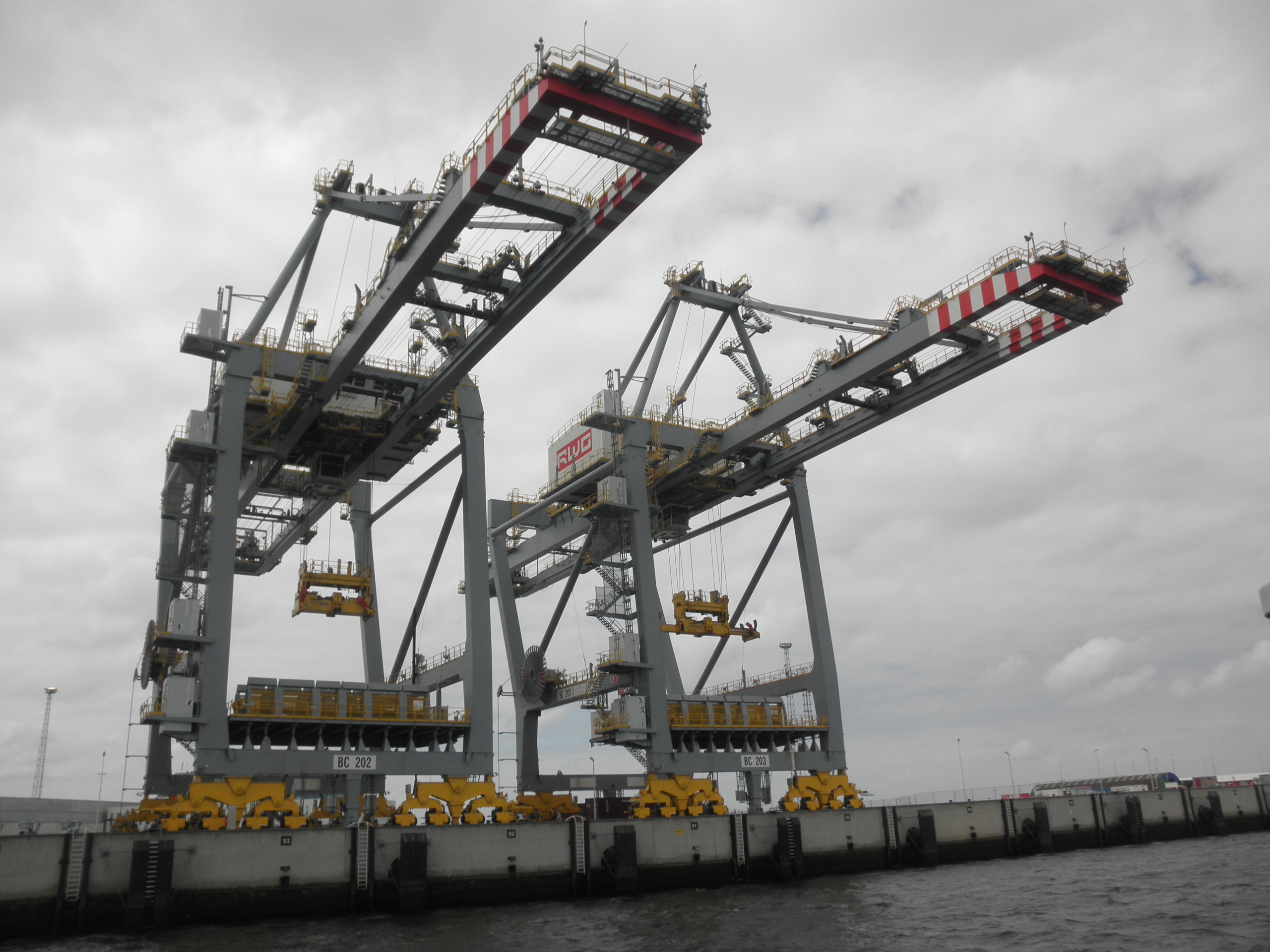 Two container cranes to service feeder- and inlandvessels at the RWG terminal on de second Maasvlakte in Rotterdam.